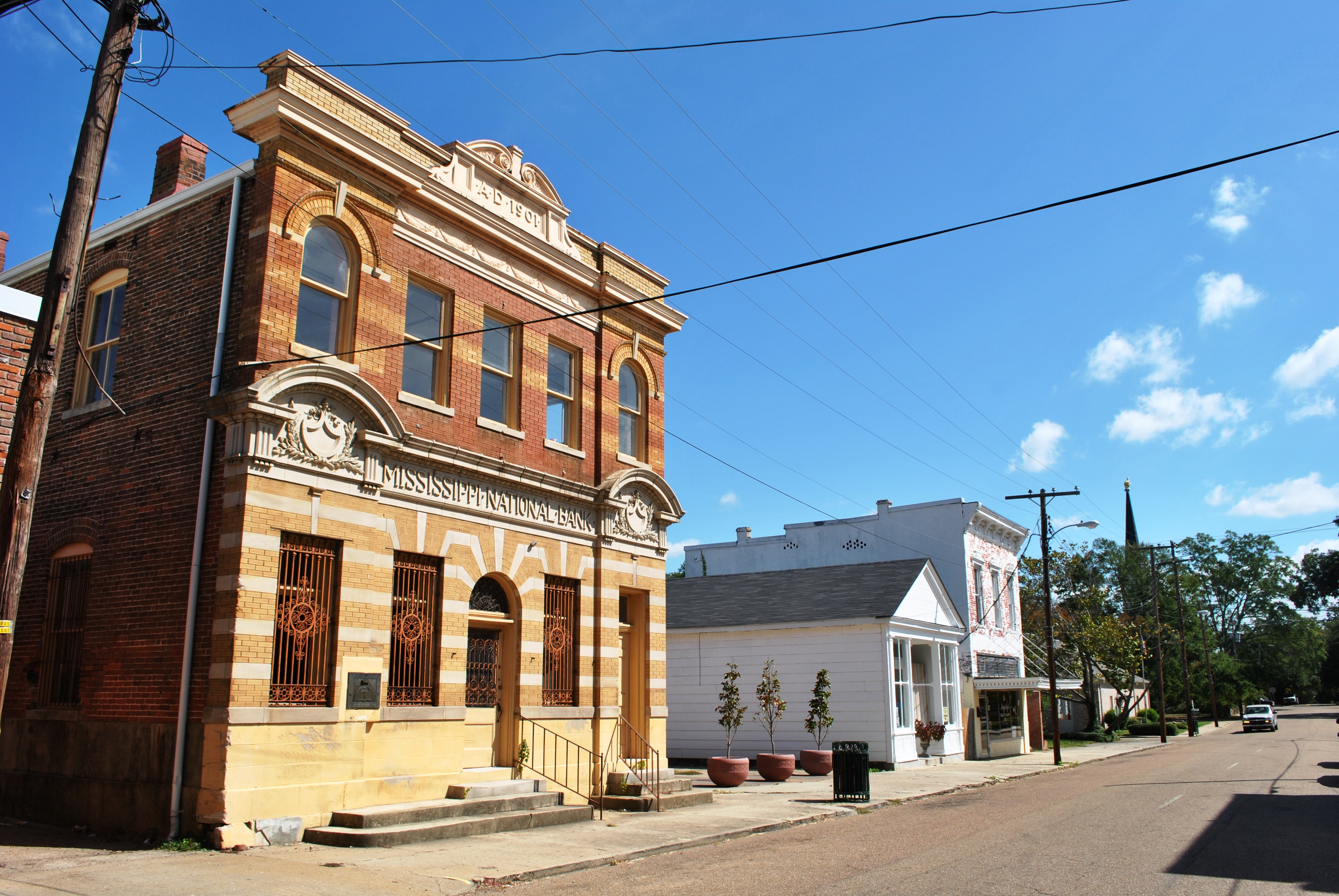 Market Street-Suburb Ste. Mary Historic District, Roughly bounded by Orange, Marginal, Greenwood, and Market Sts. Port Gibson